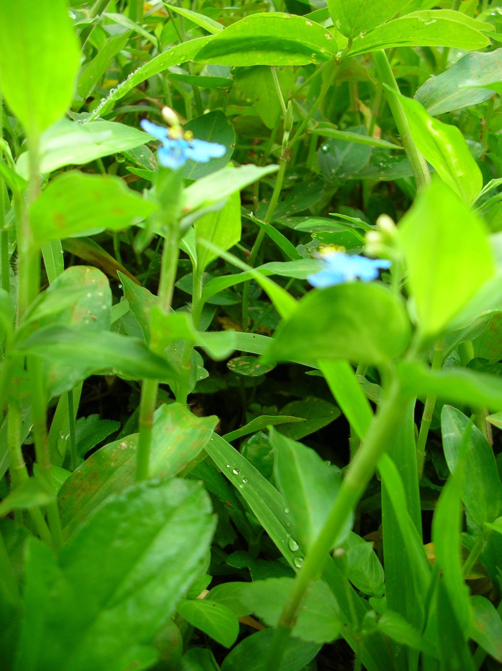 Commelina diffusa (flowers). Location: Maui, Hana Hwy